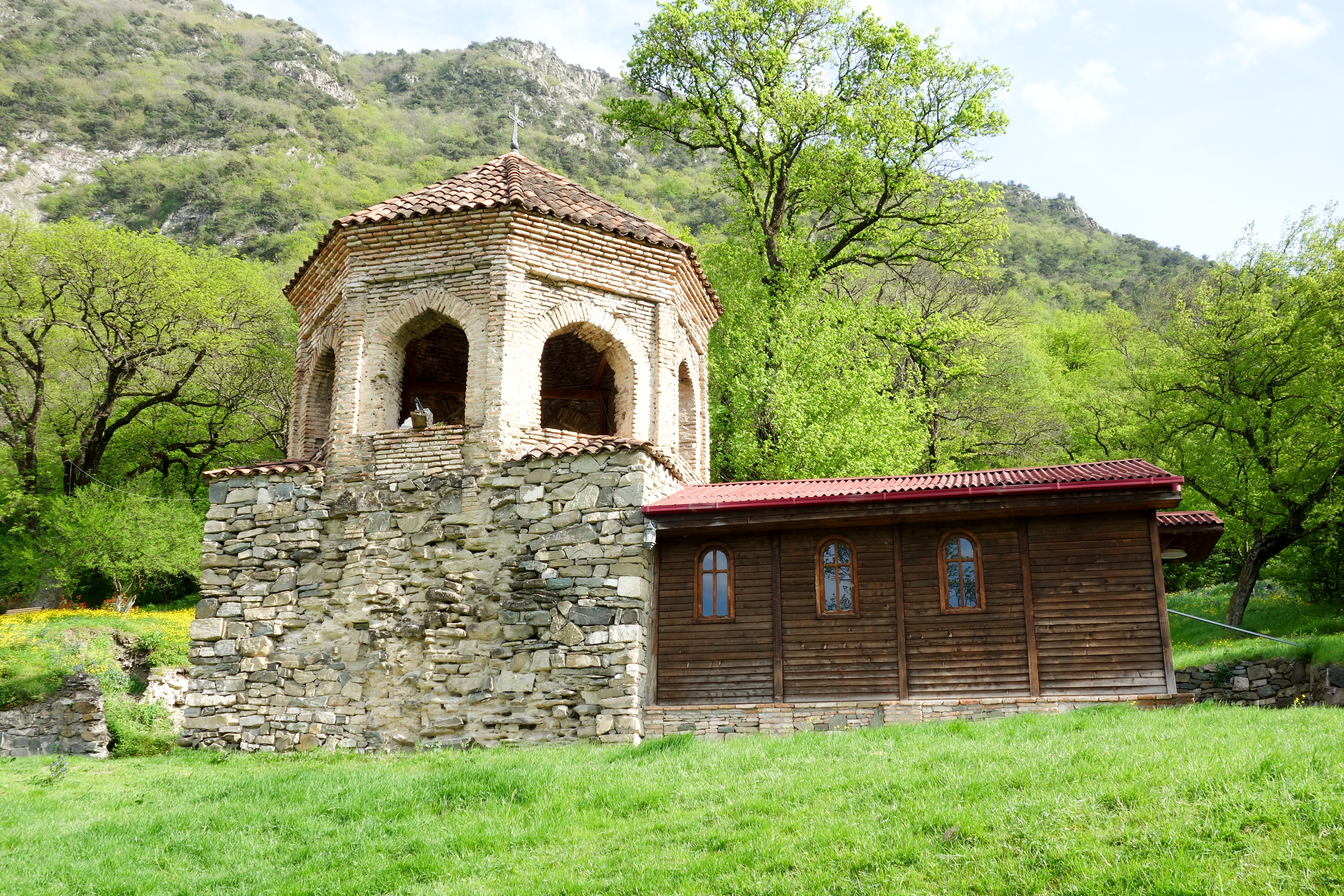 Mother of God Church (XII c.) in Armazi Valley, Mtskheta Municipality, Georgia